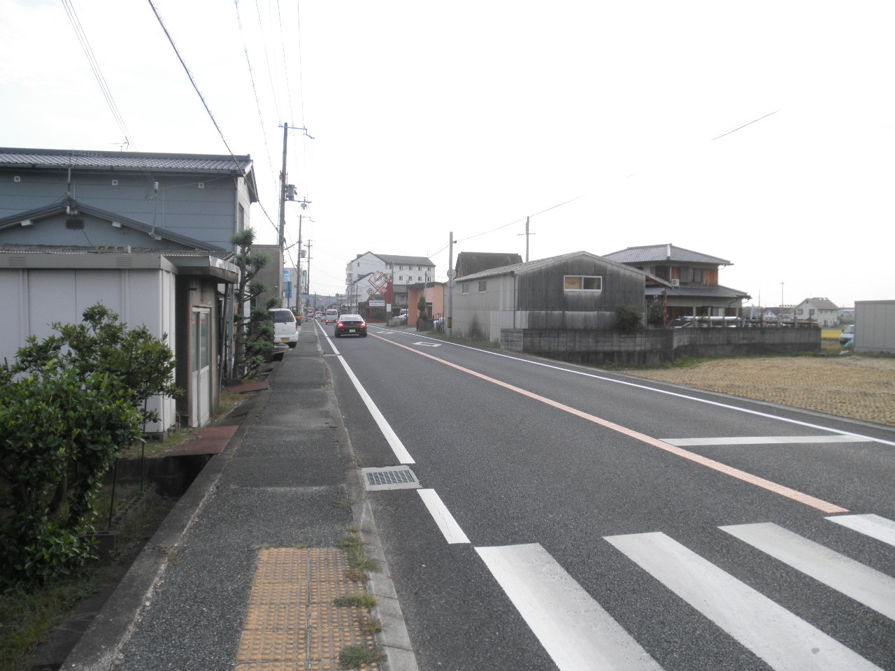 Iwamiya Mikicity Hyogopref Hyogoprefectural 20 Kakogawa Sanda Line.JPG